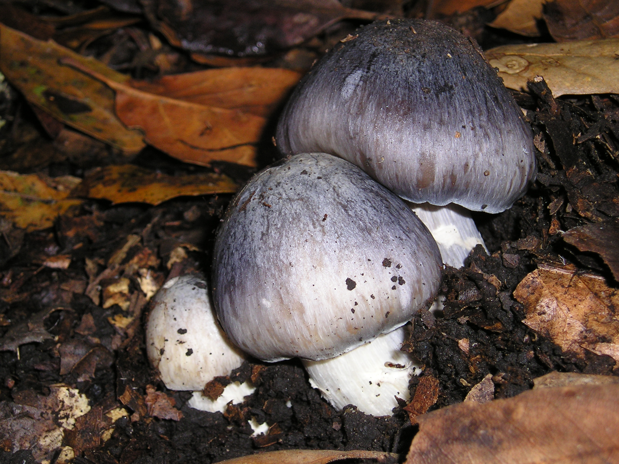 Entoloma bloxamii (Berk.) Sacc. Location: Canyon, Contra Costa Co., California, USA For more information about this, see the observation page at Mushroom Observer.